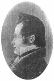 John Scott Horner